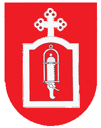 Coat of arms of the German village Kaifenheim, derived from official coat which I got from the village mayor